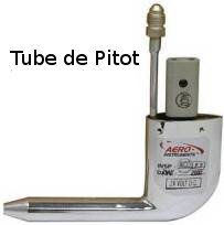 Traduction de File:Pitot tube wings.jpg